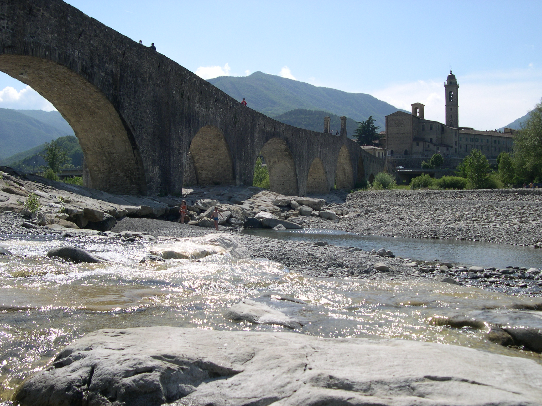 The old bridge of Bobbio, named Ponte Gobbo